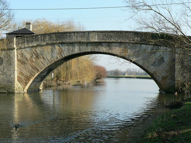 Ha'penny Bridge in winter, across the River Thames at Lechlade, Gloucestershire